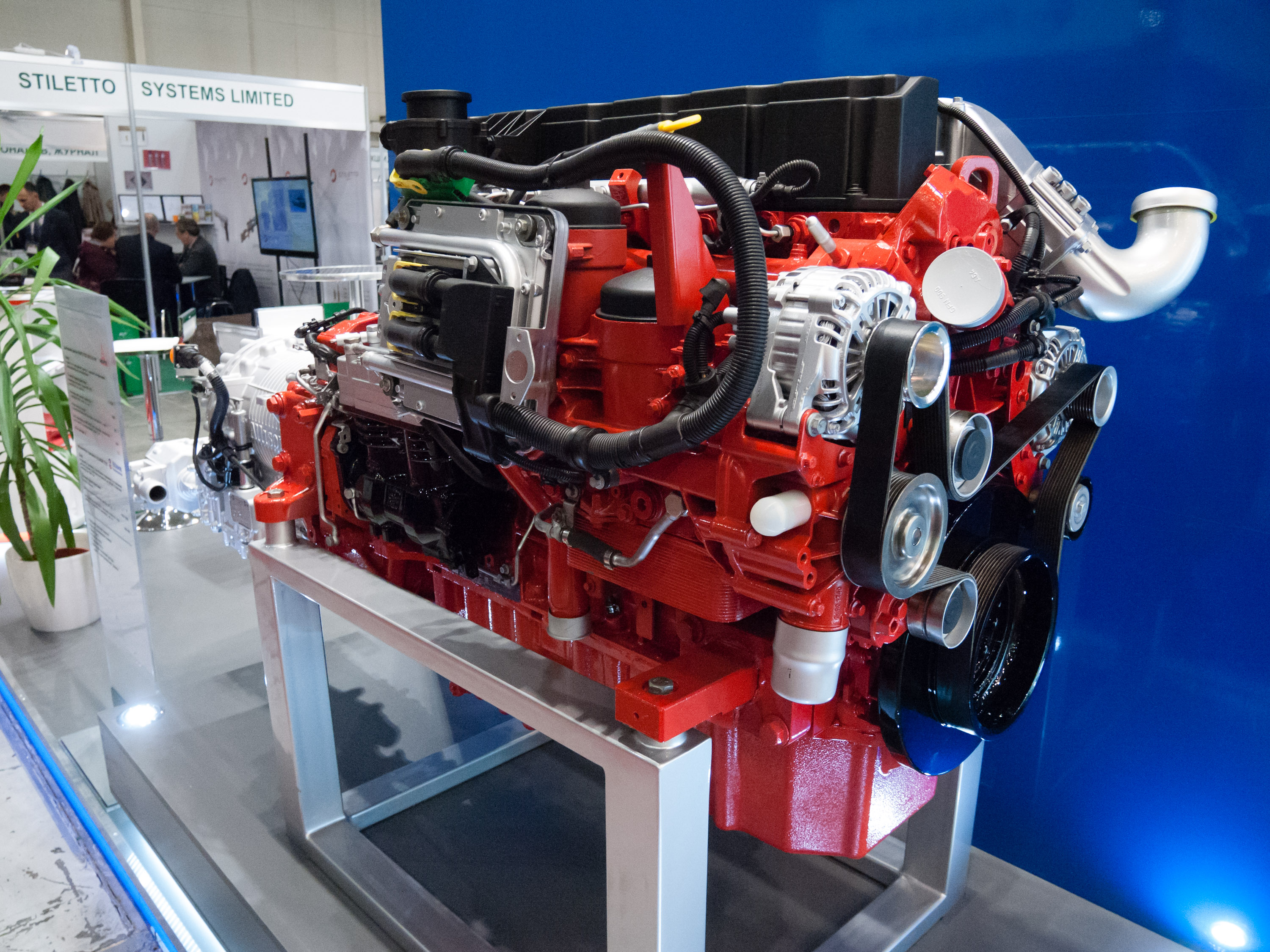 Deutz TCD L6 4V 2013